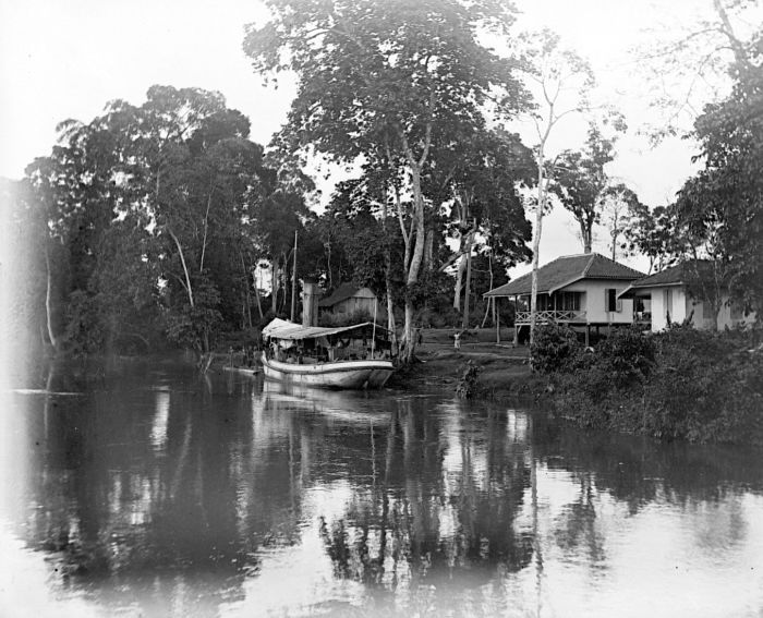 Steamship "Babat" in Toman